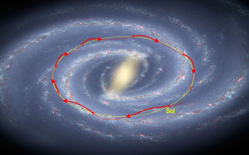 Description of the Sun movement around the galactic center. Notice that its path is also marked by oscilations above and below the galactic plane.